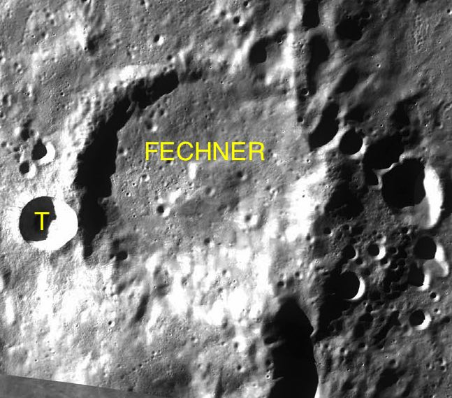 Part of the chart LAC-130 used for the presentation.